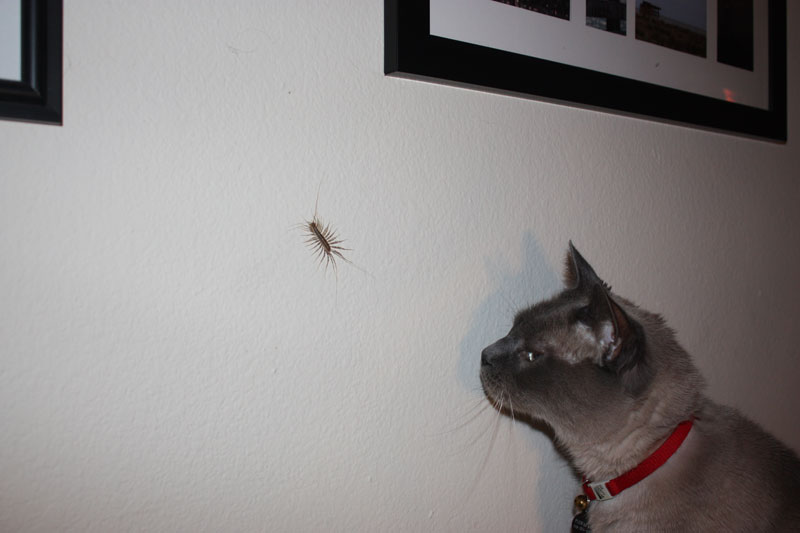 Example of Scutigera coleoptrata (house centipede) on apartment wall in Larkspur, California, being watched by a very fine example of Felis Catus.